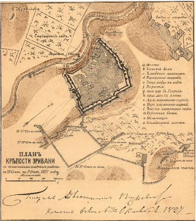 The main plan of the Yerevan Fortress, 1827